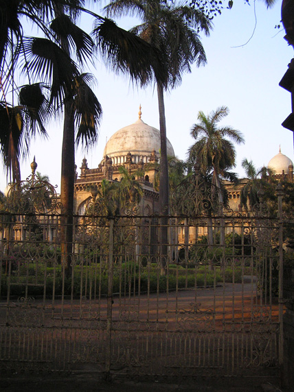 The Prince of Wales Museum or the Chatrapai Shivaji Wastu sangralaya (as it is know now)